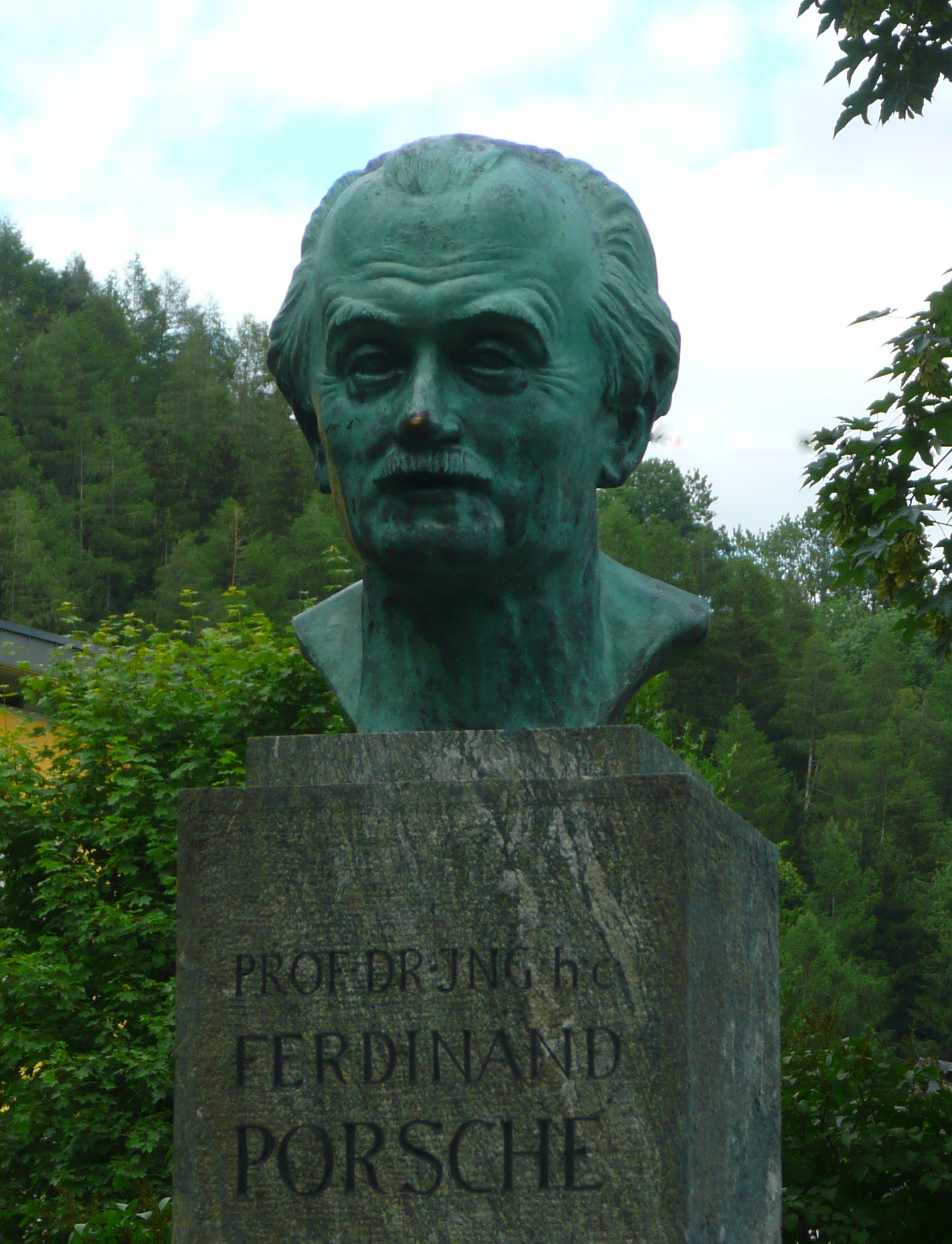 Monument of Ferdinand Porsche in Gmünd (Austria)